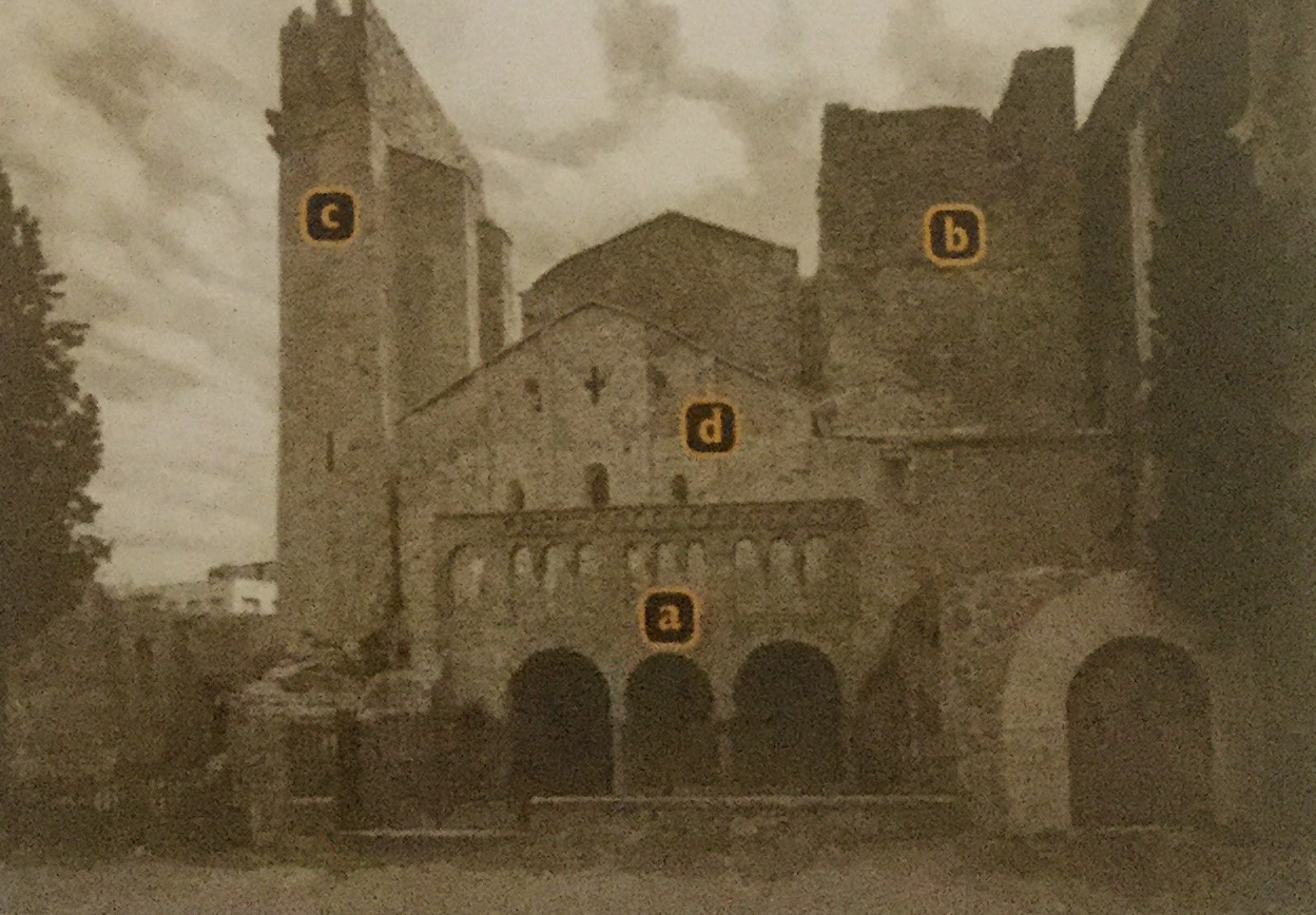 Picture of all the parts of the Porta ferrada